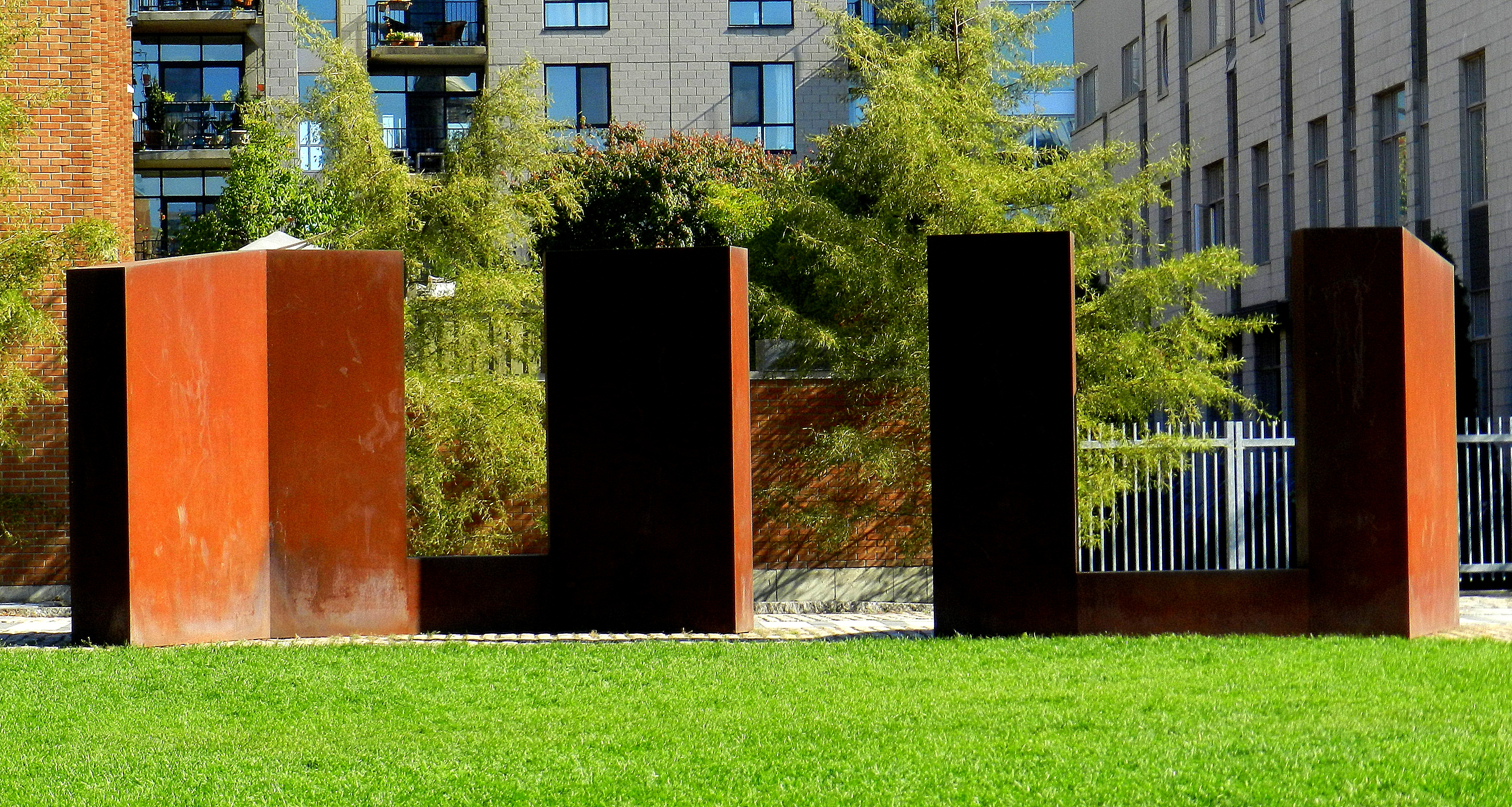 Porte de jour (Daylight Door), Jocelyne Alloucherie, Dalhousie Square, Montréal, Québec, Canada